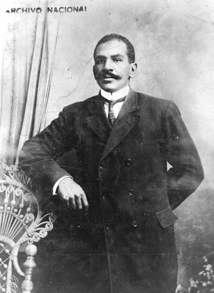 Evaristo_Estenoz_Corominas